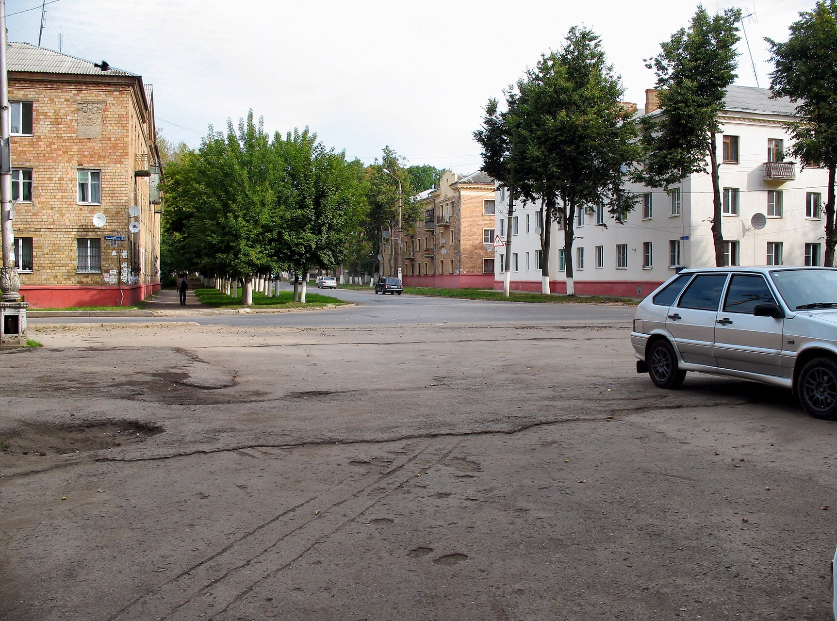 Shchyokino